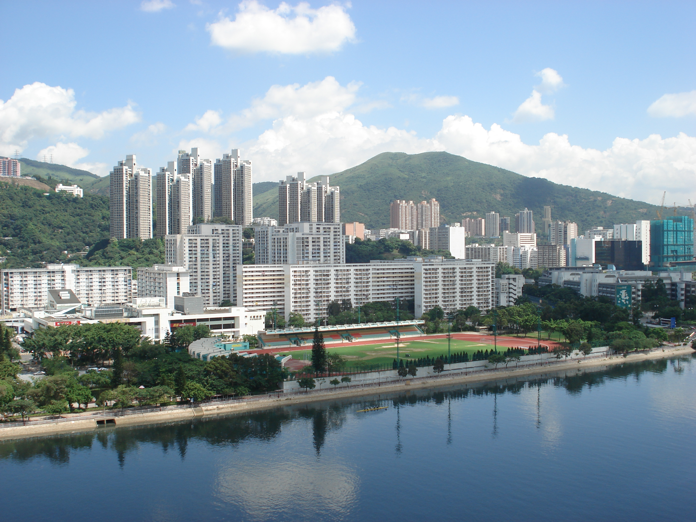 Most of the residental, industrial buildings in Shatin are located at the bank of the Shing Mun River.